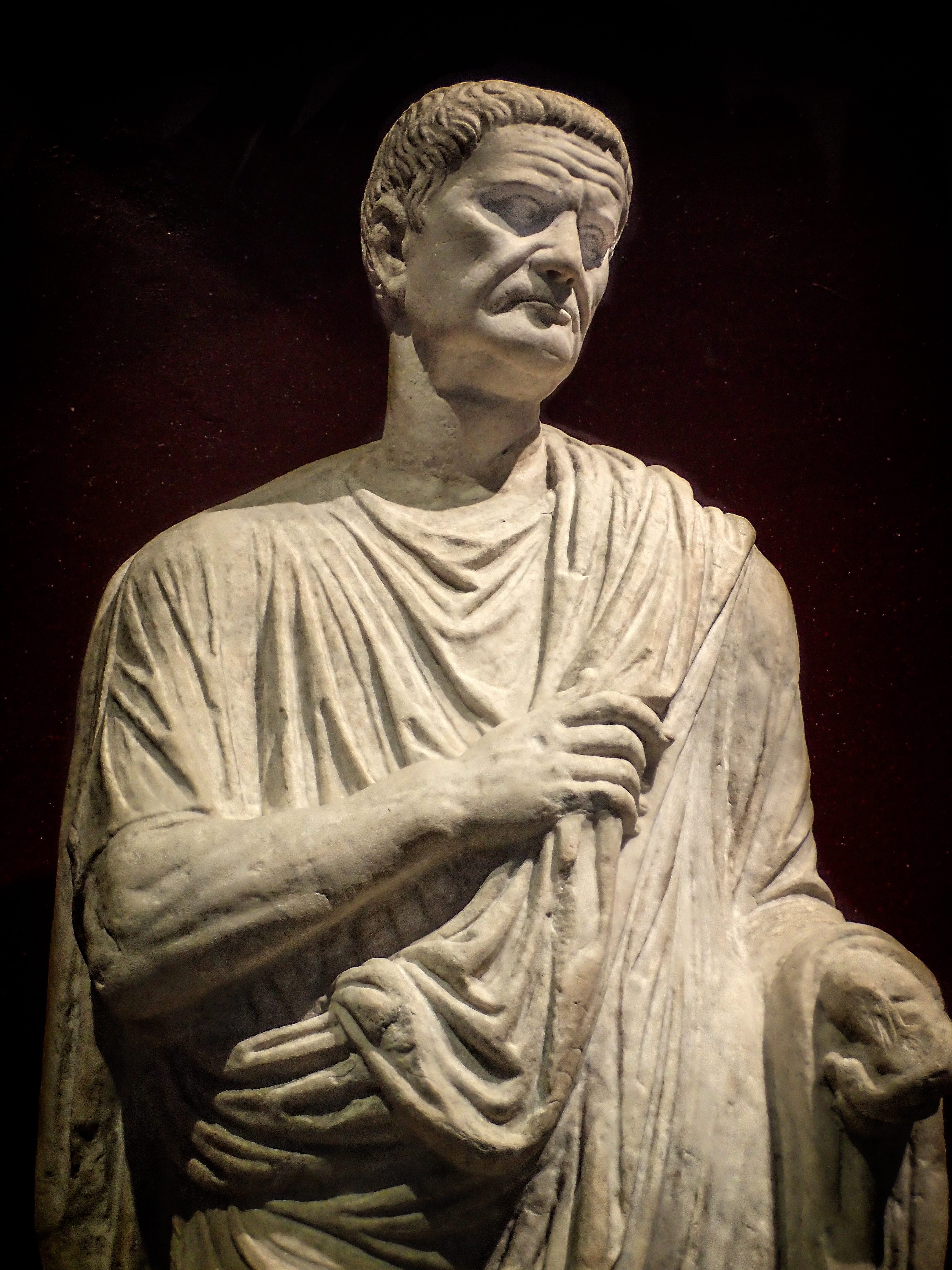 First century CE togate torso bearing a 17th century CE head dubbed Caius Marius by the Earl of Arundel excavated in 1613-1614 CE photographed at the Ashmolean Museum in Oxford, England